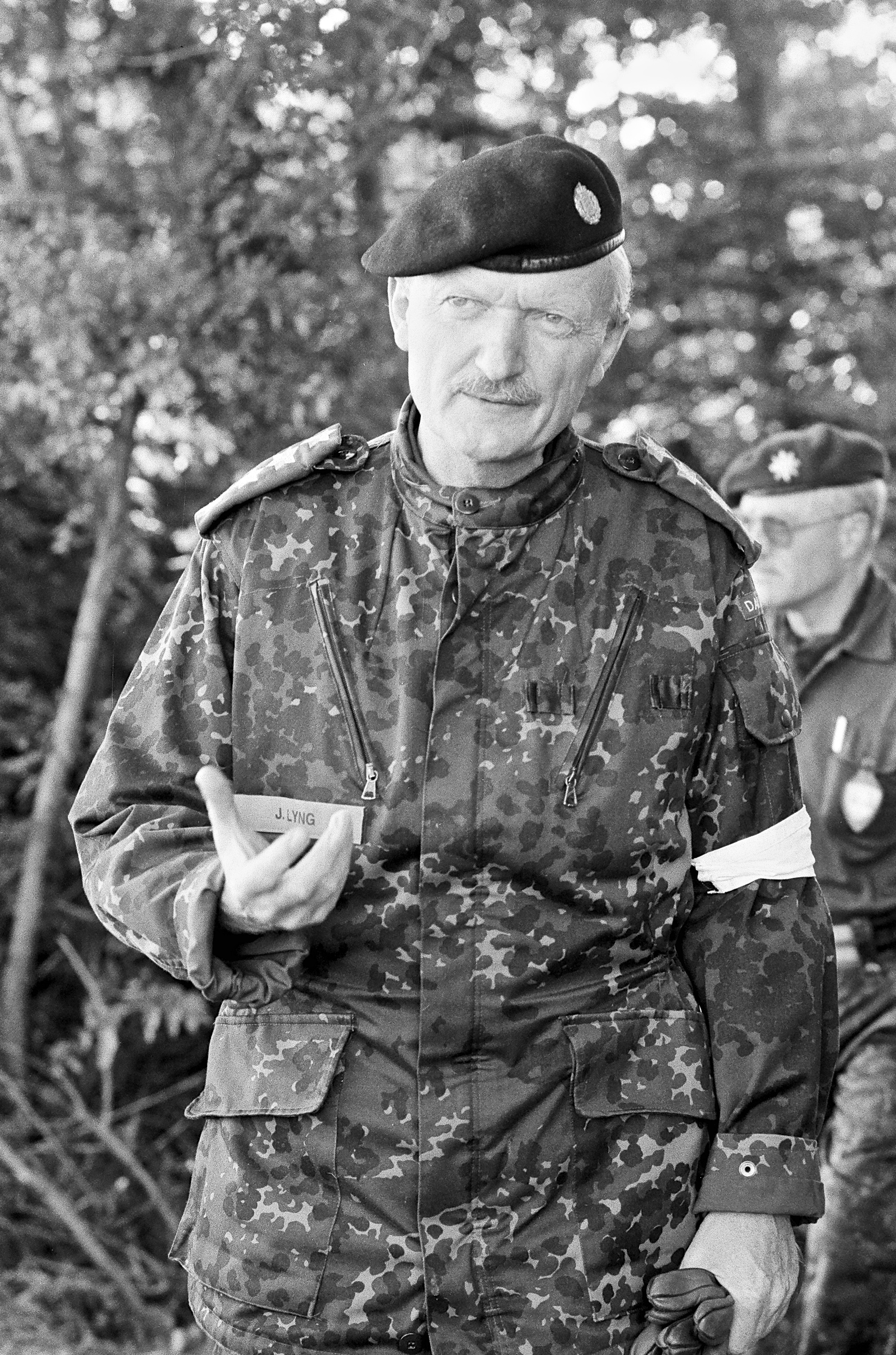 Danish General and Chief of Defence Jørgen LyngDansk: Dansk general og forsvarschef Jørgen Lyng